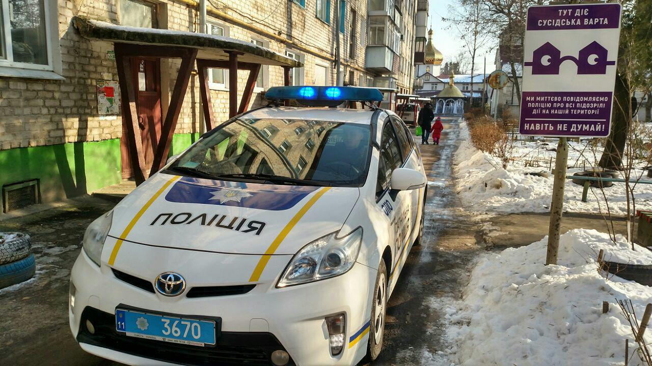 Співпраця громади та поліції через проект "Сусідська варта"